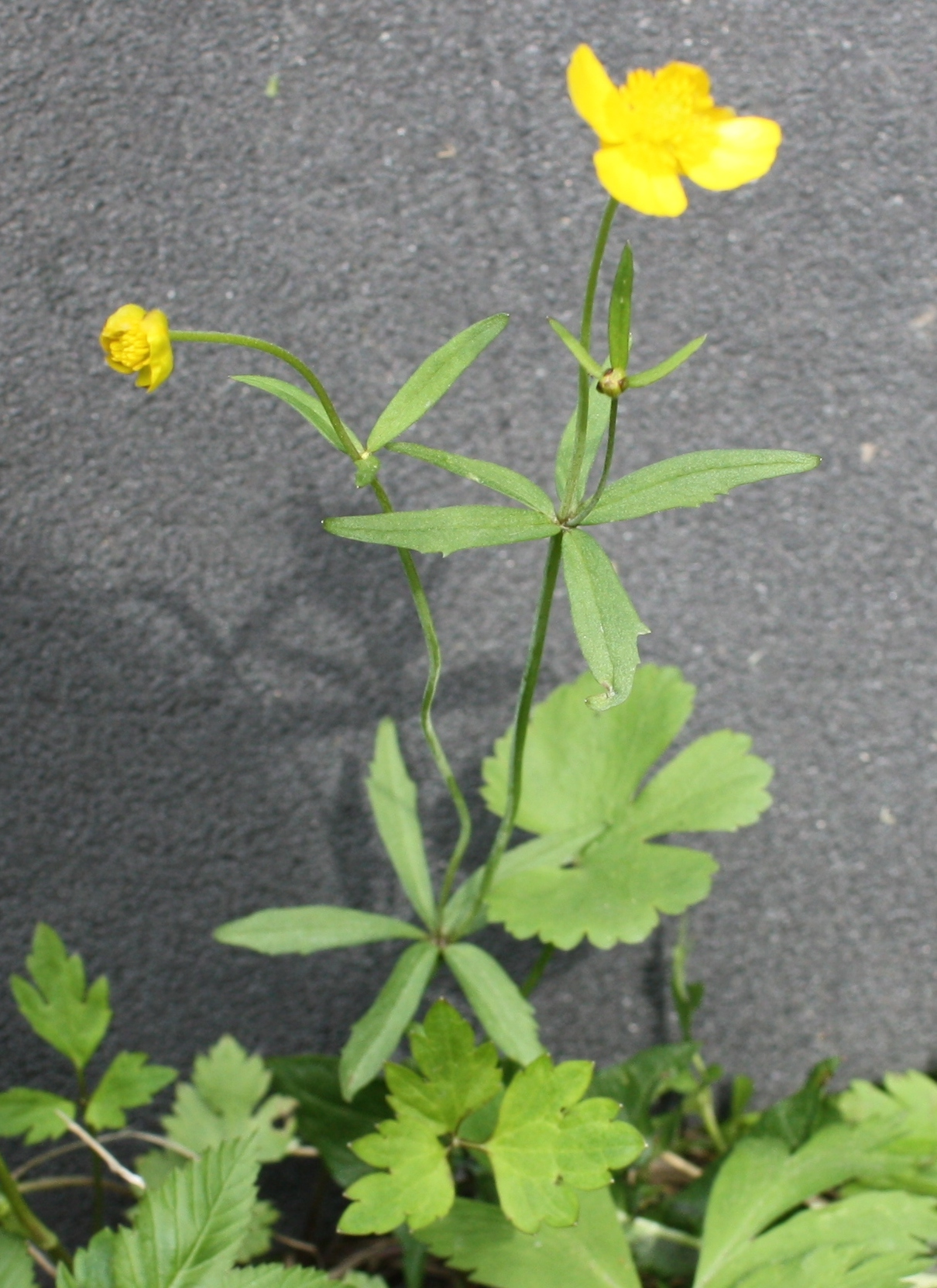 Ranunculus fallax - Lemmenlaakso Nature Reserve, Järvenpää, Finland